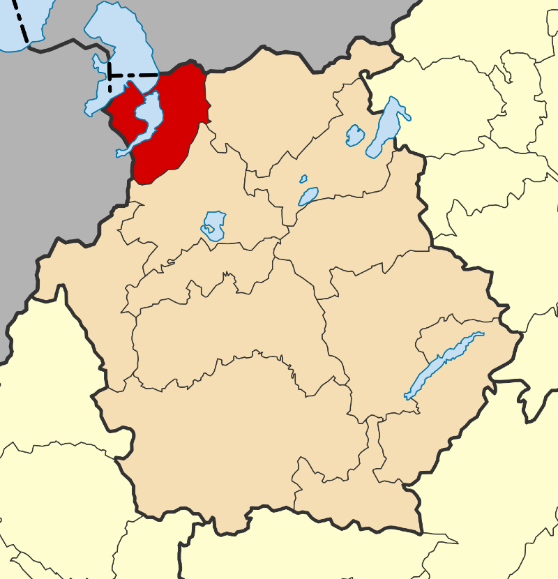 Locator map for Prespes municipality in Greek region West Macedonia (2011)